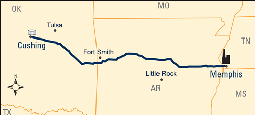 Operational and proposed route of the Diamond Pipeline.